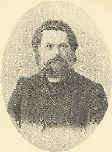 Ivan Parfenjevich Borodin (1847—1930), Russian botanist, Member of Russian Academy of Science